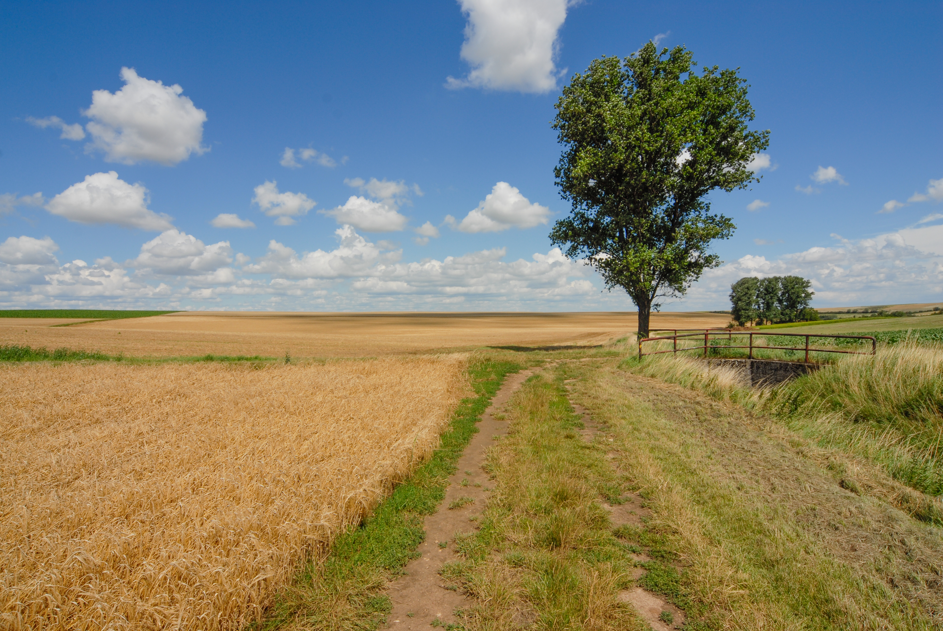 Path, tree, bridge in the northern Palatinate near Ilbesheim